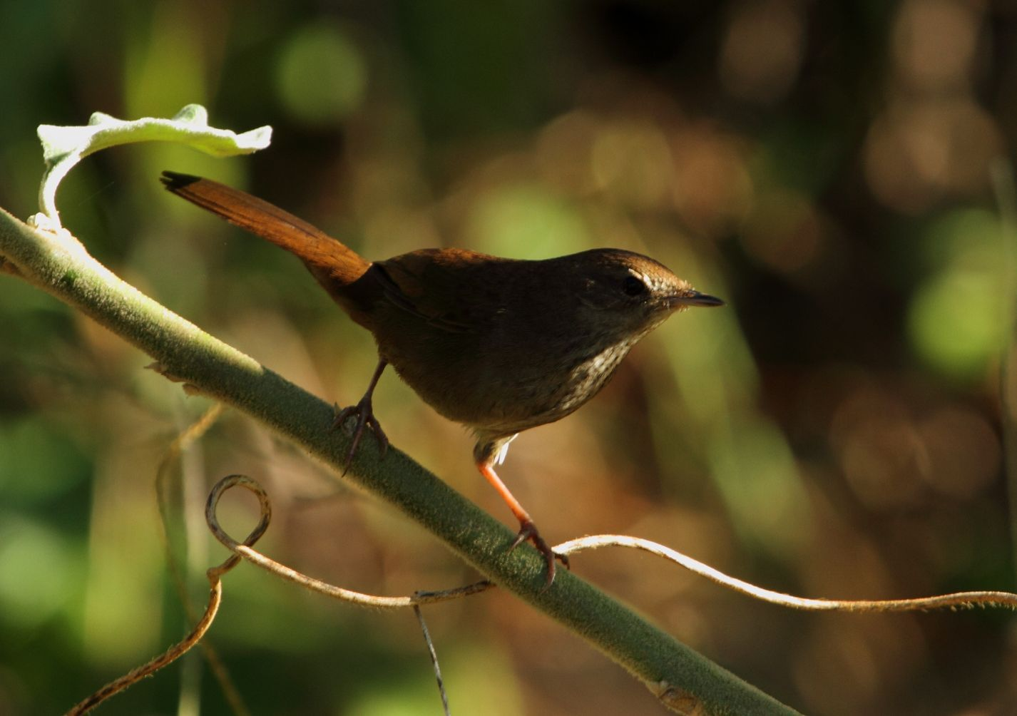 Barratt's Warbler (Bradypterus barratti); Pietermaritzburg, KwaZulu-Natal